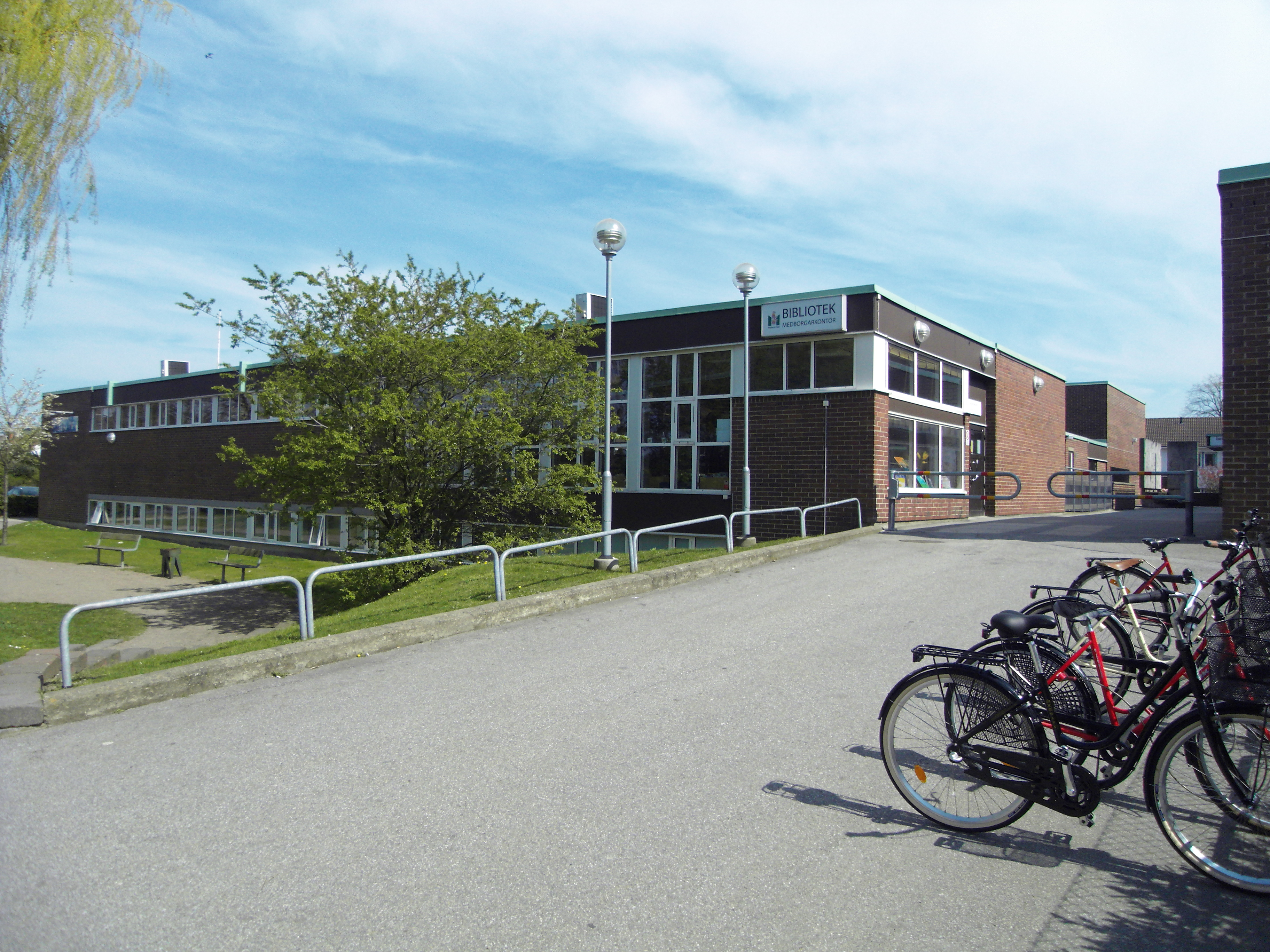 The Kirseberg Library (in Swedish Kirsebergs bibliotek or Kirsebergsbiblioteket) in the city district Kirseberg in Malmo.